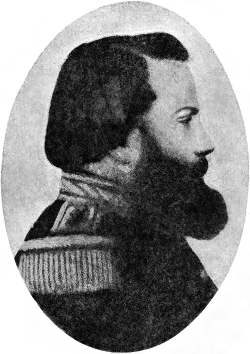 A heavily retouched photo of Francisco Solano López, dictator of Paraguay, 1869